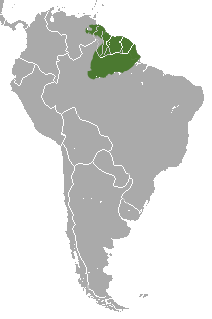 White-faced Saki (Pithecia pithecia) range